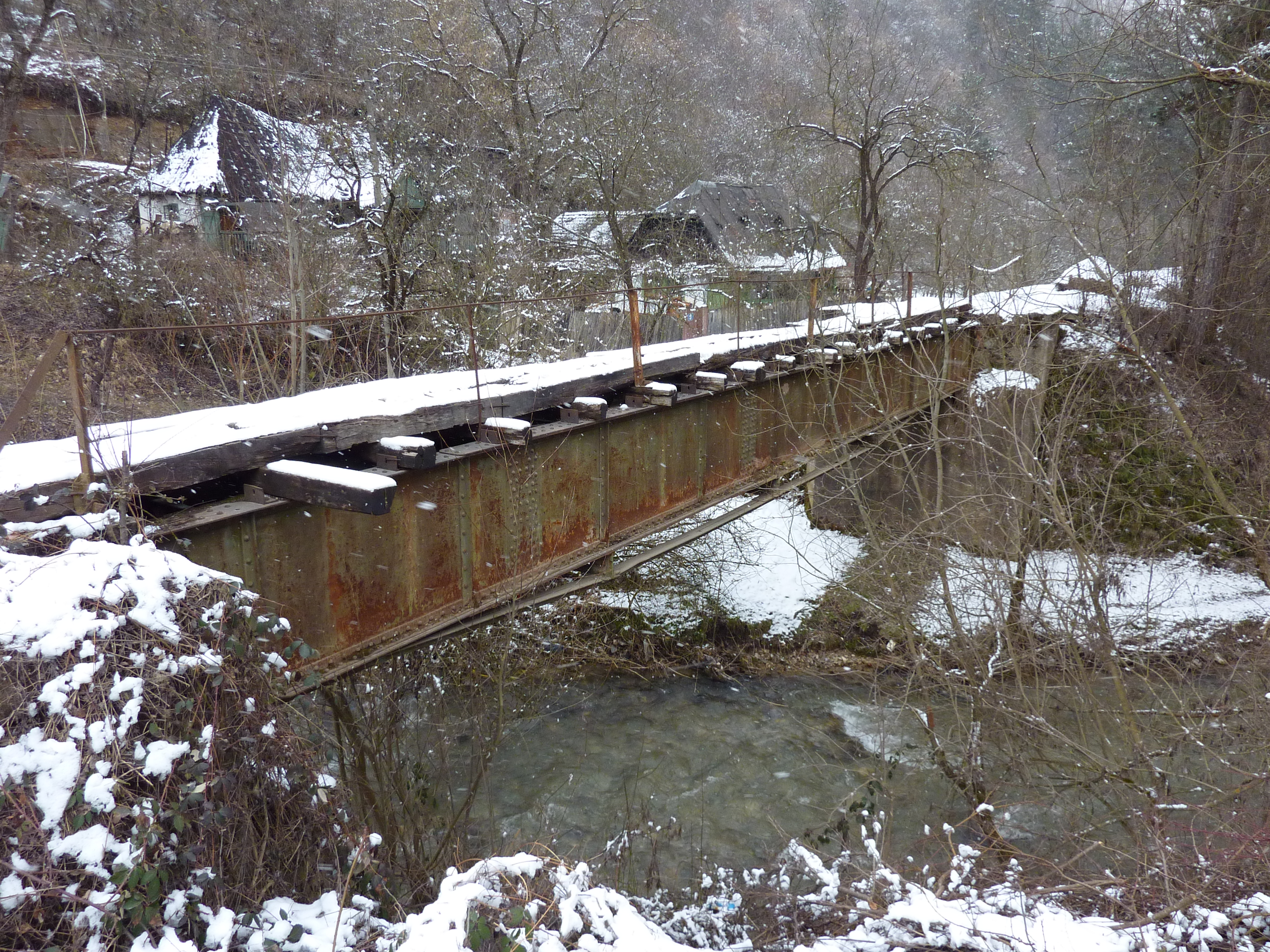 One original metallic bridge over the Govăjdia river in the Govăjdia village.